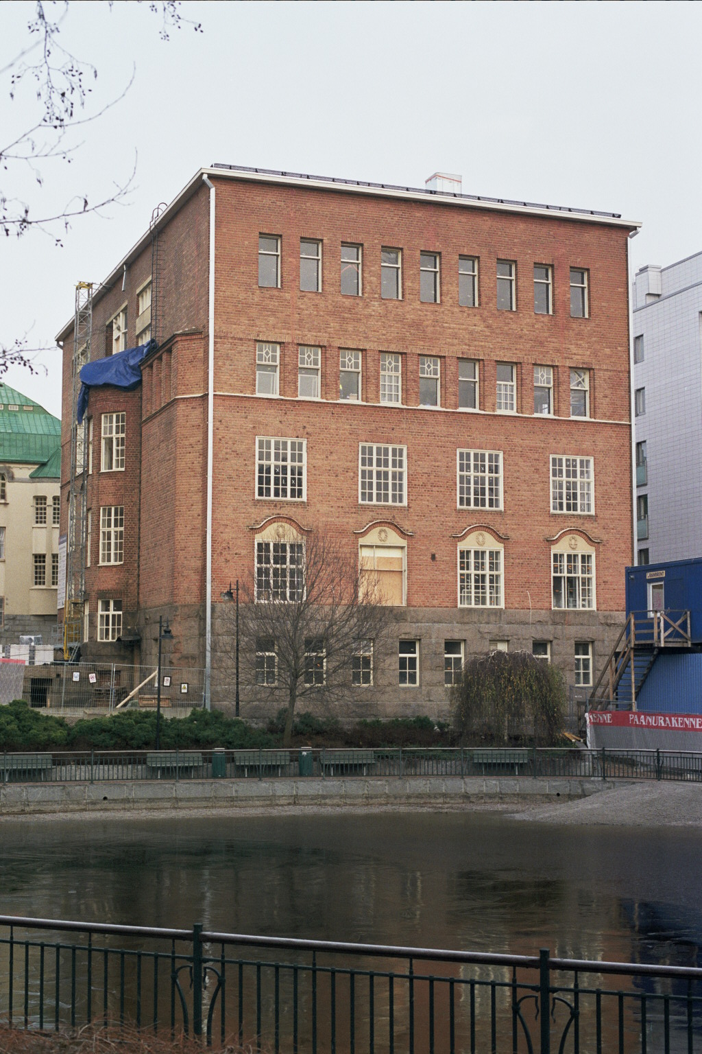 The former commercial college/institute of Tampere (1913–1965) in central Tampere, Finland. Designed by architect Wivi Lönn, the building was obviously originally completed in 1913. Later, circa 1950, it was extended with an additional floor.